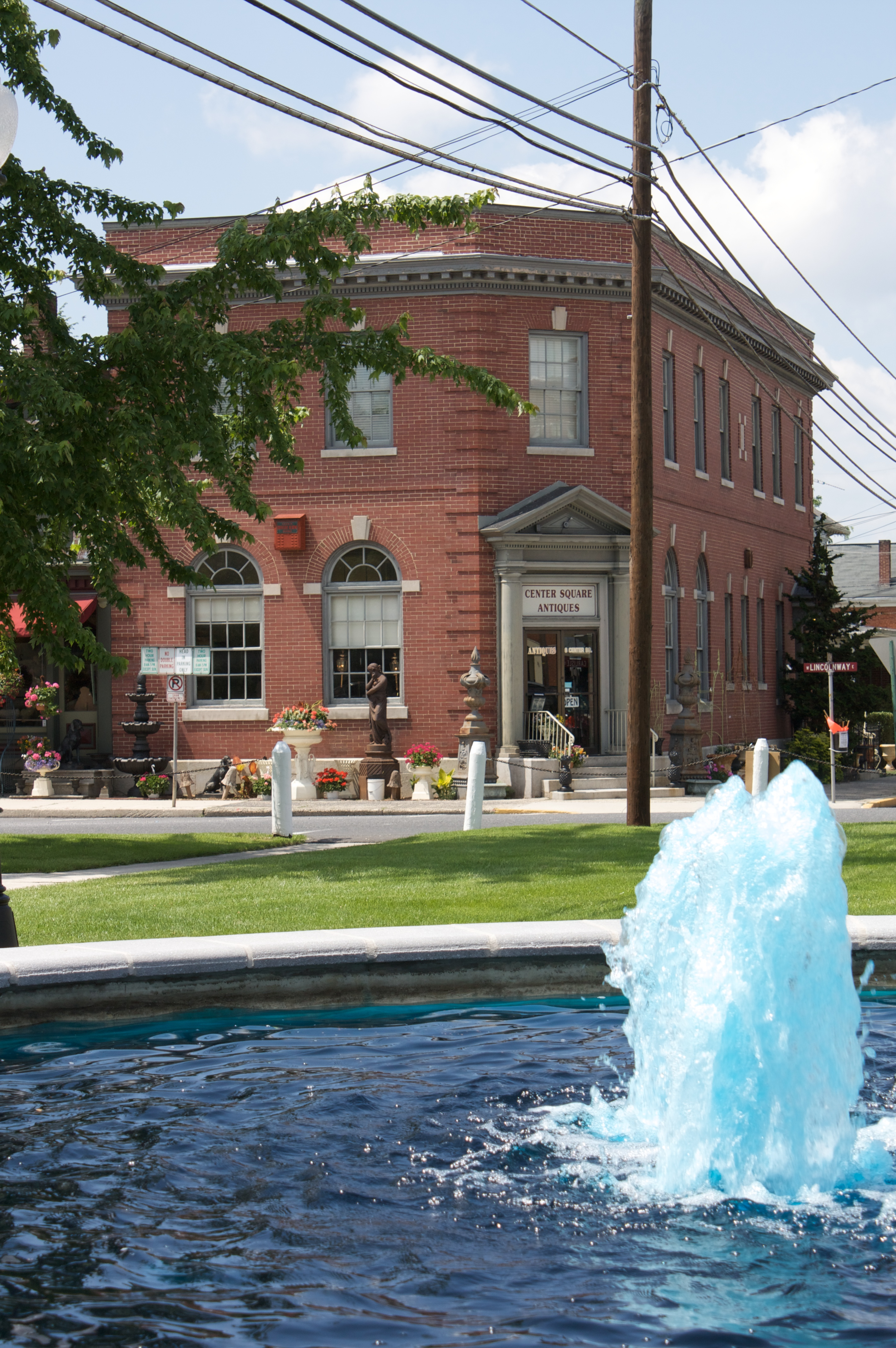 The fountain and downtown New Oxford.